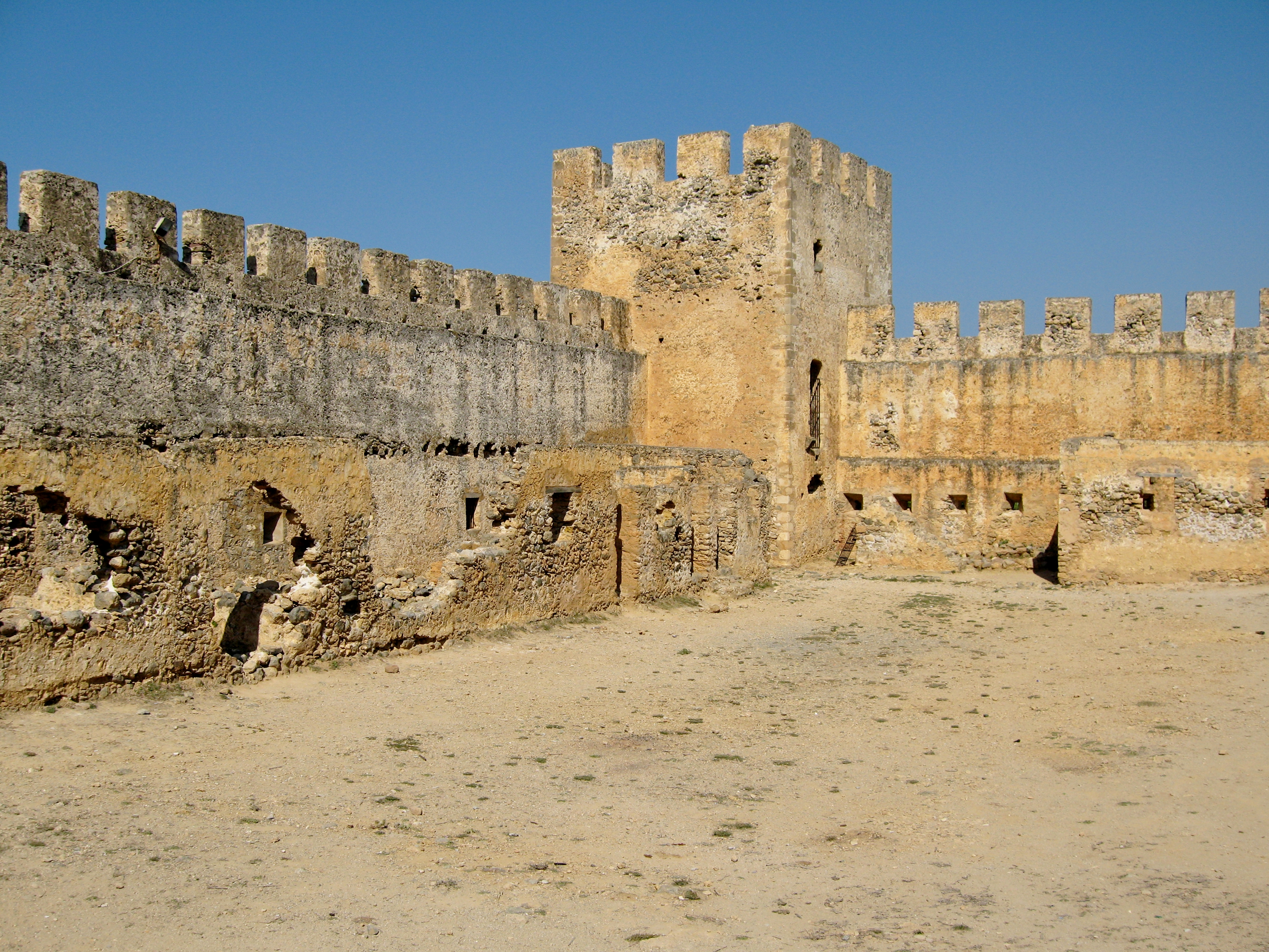 Frangokastello, Sfakia, Nomos Chania, Crete, Greece